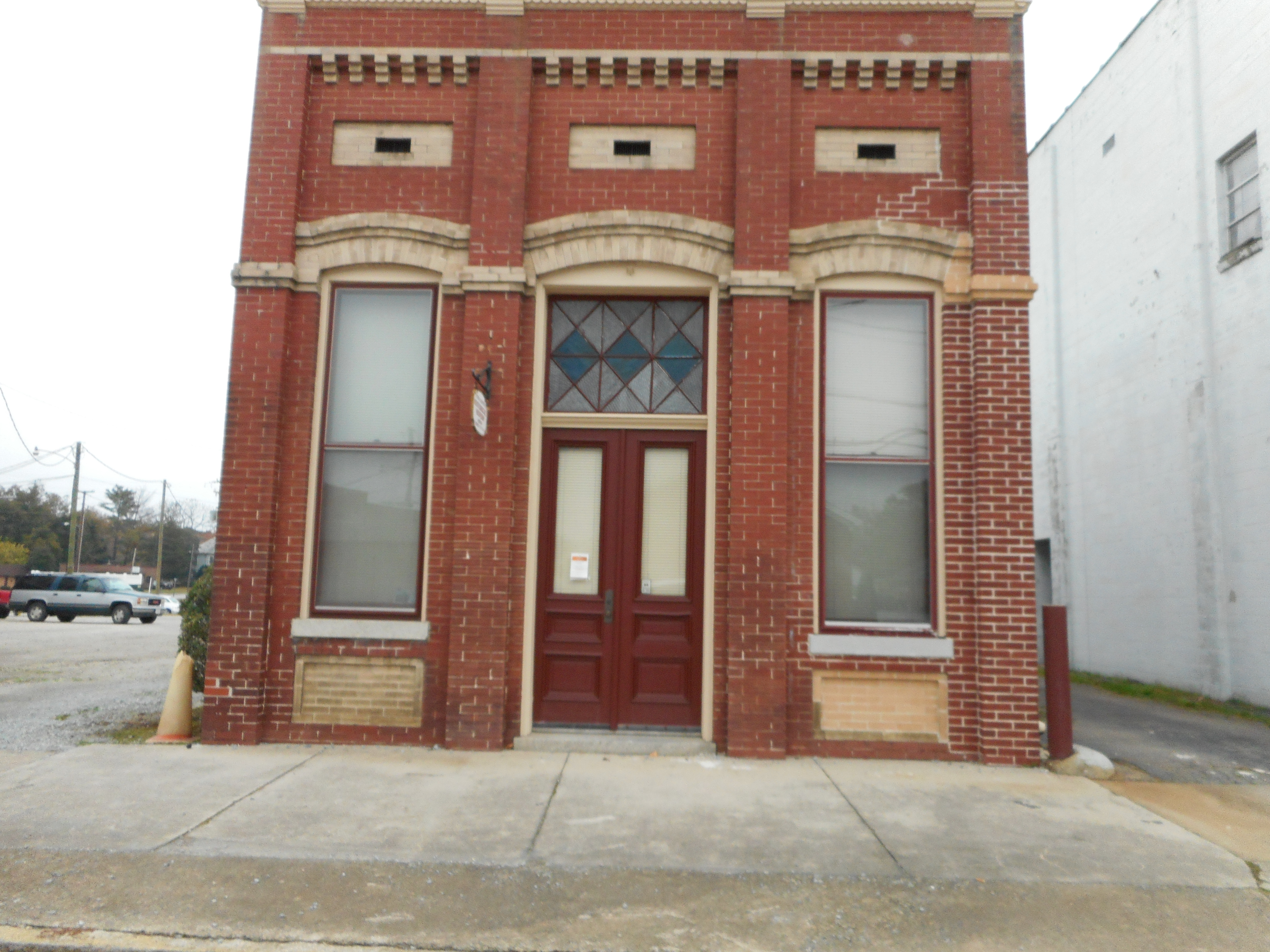 The former Merchants and Farmer's Bank Building on US 301 in Emporia, Virginia.